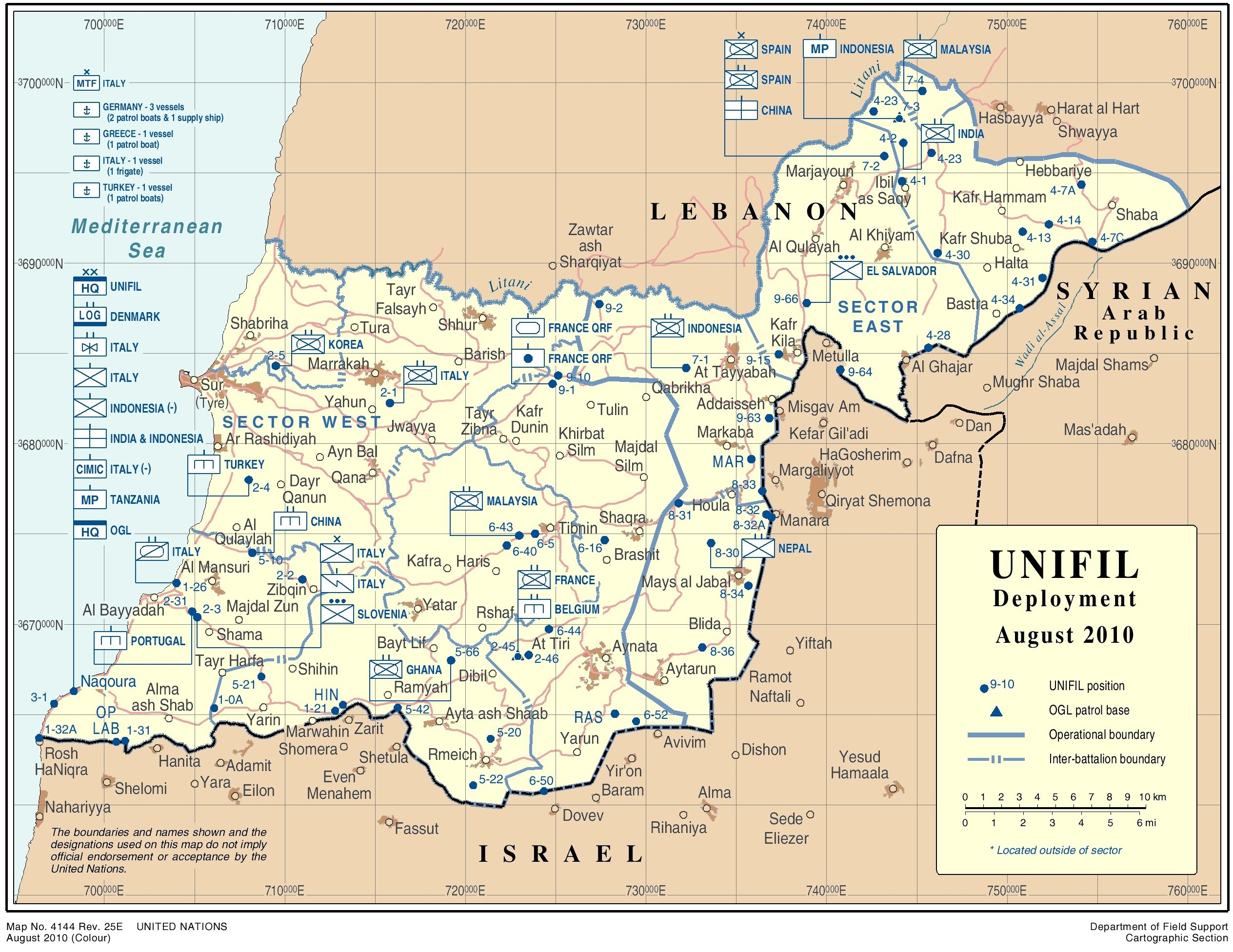 United Nations Interim Force in Lebanon (UNIFIL) deployment, August 2010